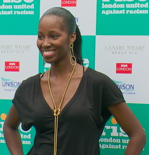 Jamelia